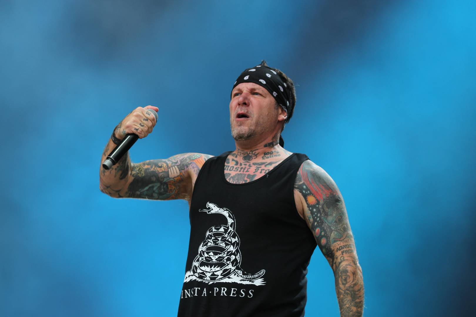 Roger Miret (Agnostic Front) 2013 Festivalsommer This photo was created with the support of donations to Wikimedia Deutschland in the context of the CPB project "Festival Summer".